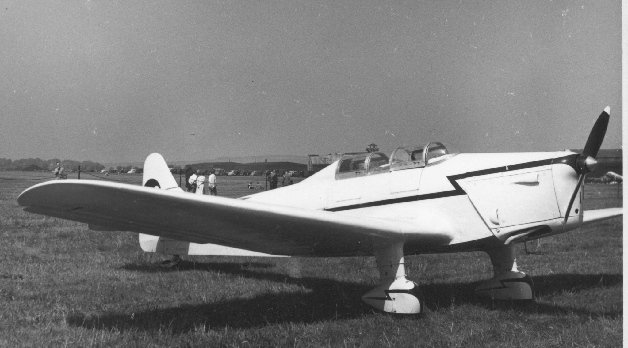 Miles M.14A Hawk Trainer Coupe G-AJRT at Leed (Yeadon) Airport